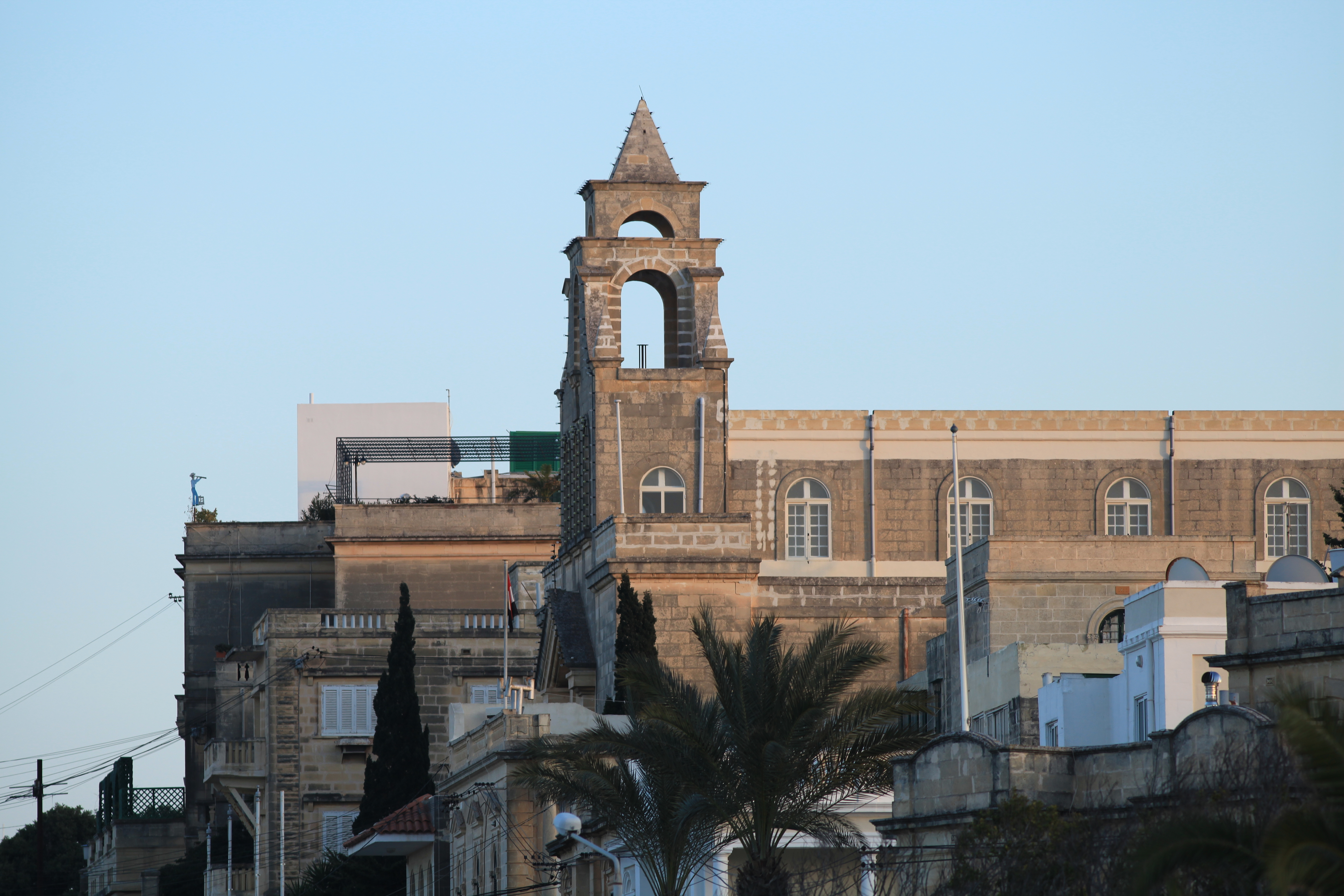 Vjal Sir Temi Zammit with Knisja San Gwann tas-Salib (St John of the Cross Parish Church) in Ta' Xbiex, Malta